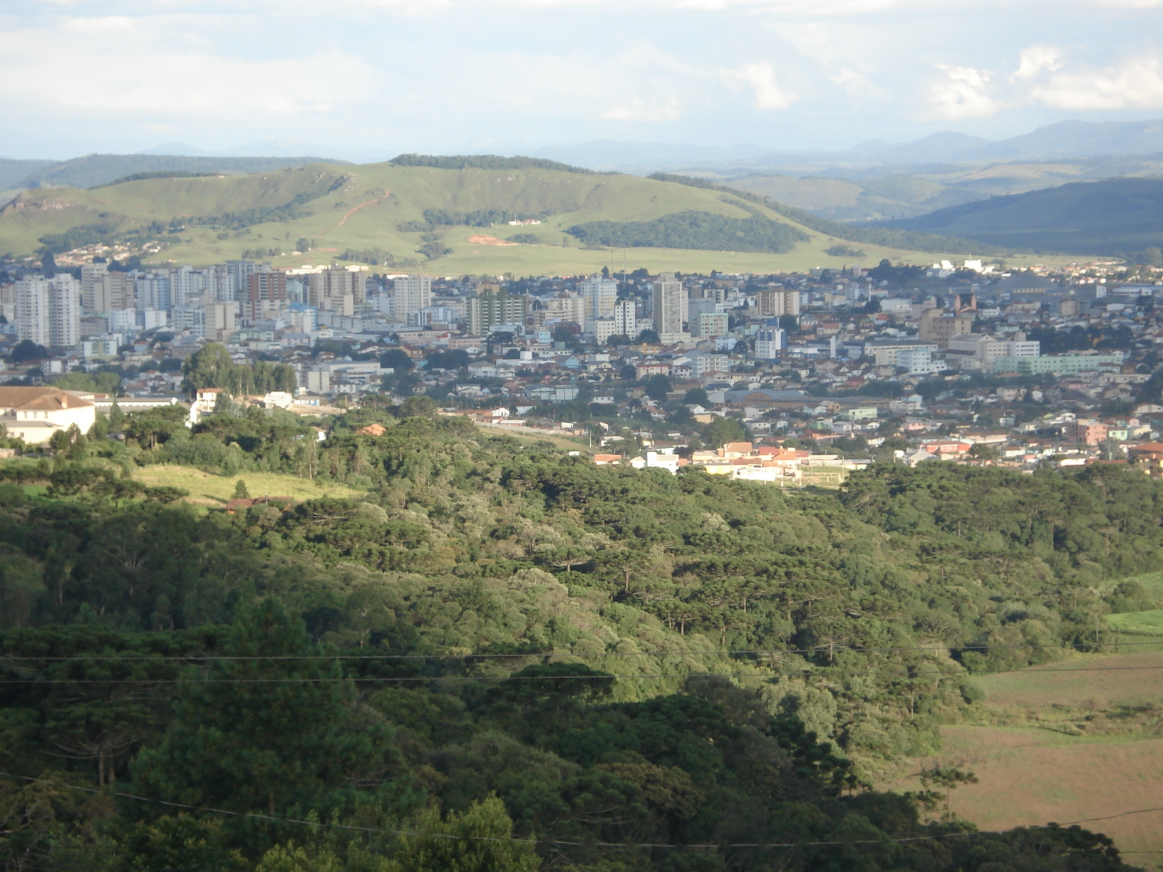 Central area of the city of Lages - SC